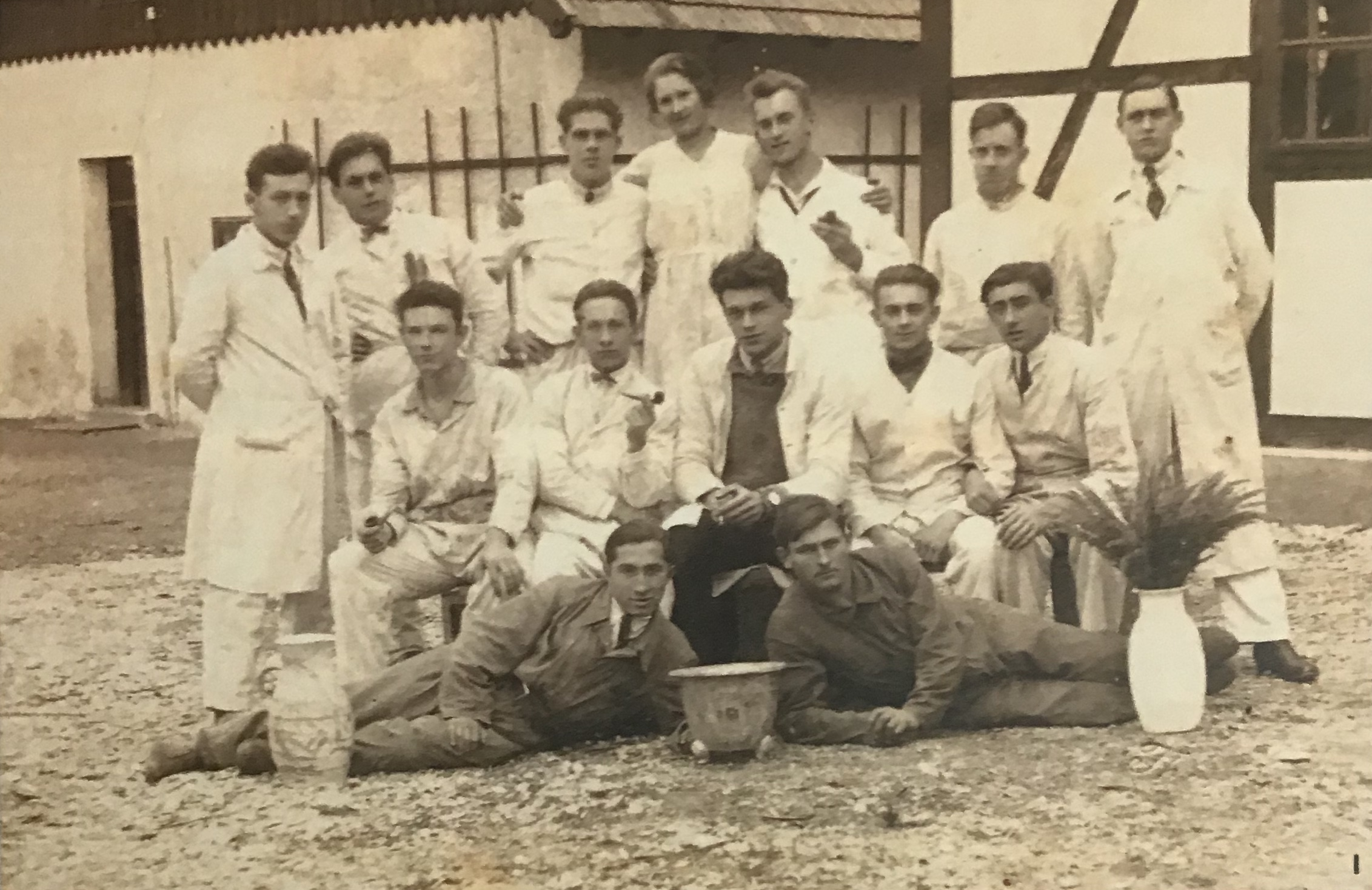 Rudolf Knörlein (zentral) mit Belegschaft der Tonindustrie Scheibbs